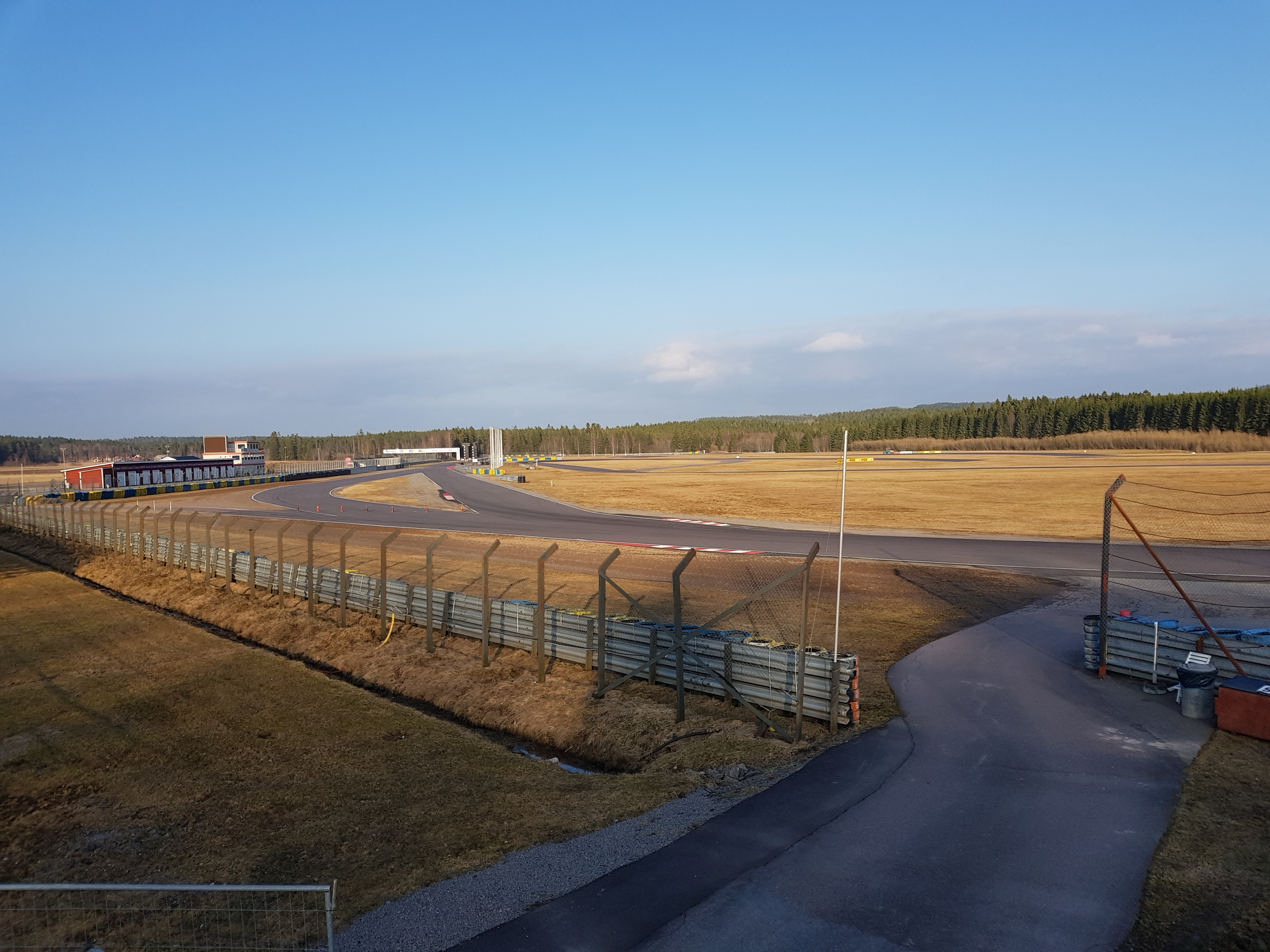 Gelleråsens racing curcuit in Karlskoga, Sweden